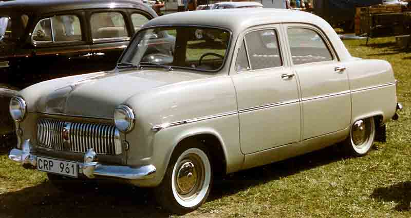 Ford Consul 4-Door Saloon